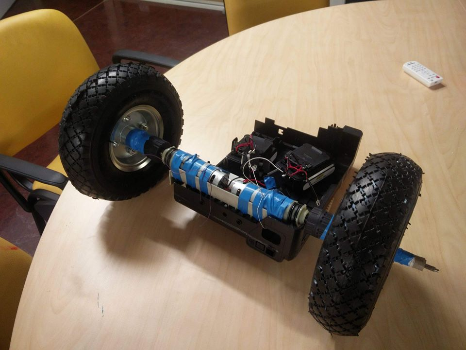 Pööp on toimiv prototüüp või ajutine lahendus, mis koosneb peamiselt odavatest (Hiina) osadest, vilkuvatest ledidest, prügihunnikust leitud taaskasutatud juppidest ja seisab koos tänu suurele kogusele kuumliimile, kaablisidemetele ja teibile.